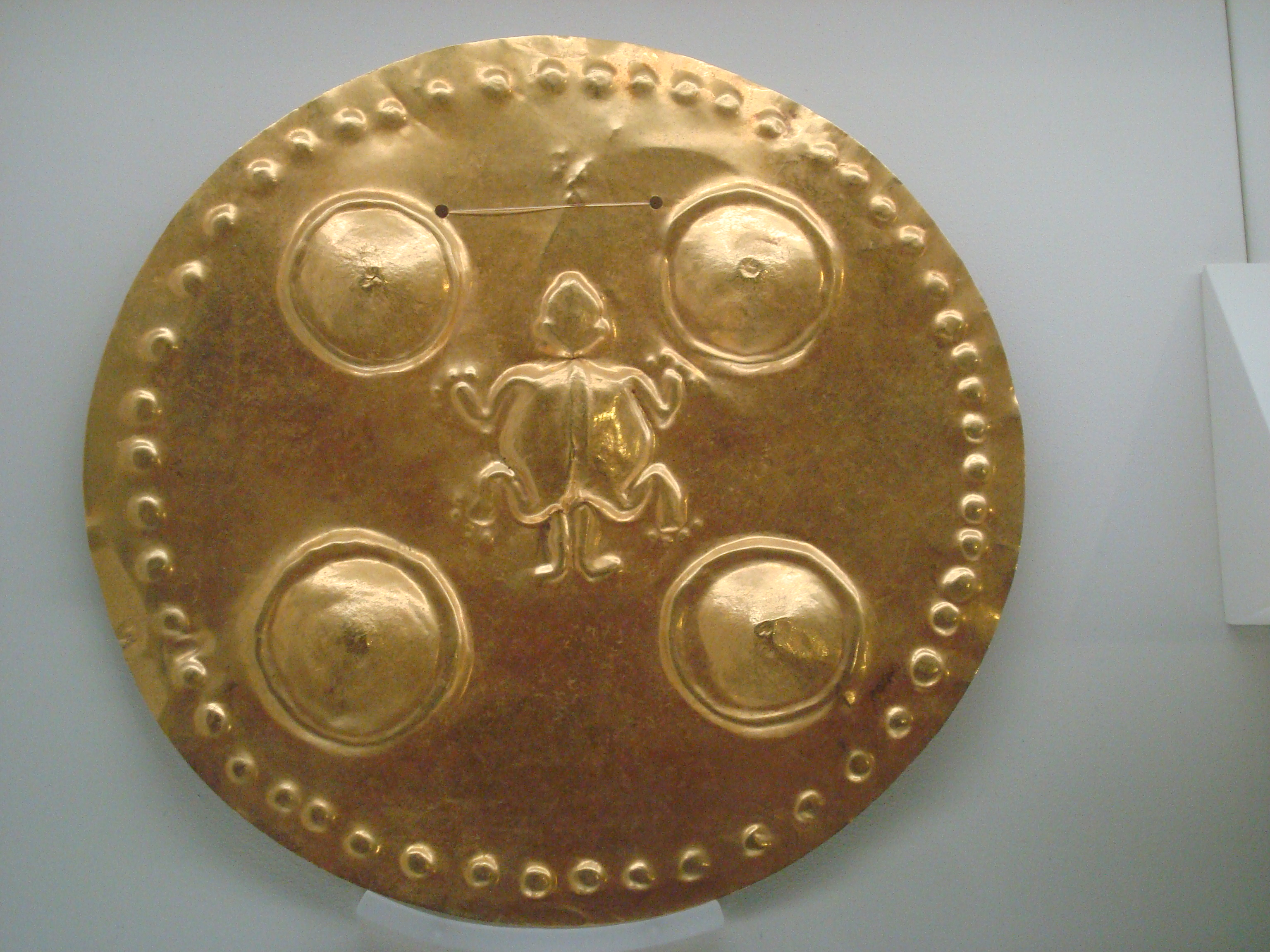 Golden disk with motif of a turtle. Southern Pacific of Costa Rica. 700-1550 AD. Museum of Pre-Columbian Gold, San Jose, Costa Rica.